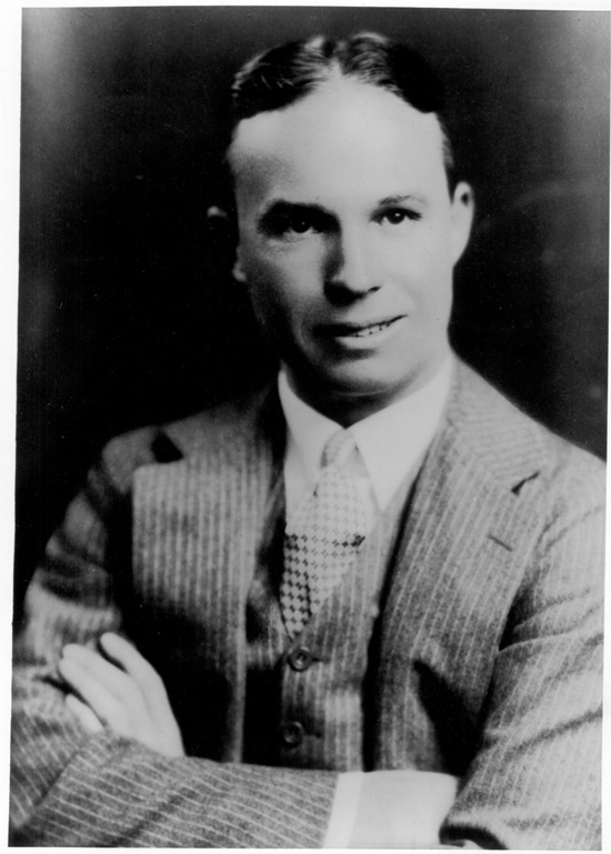 Catalog #: BIOL00646 Last Name: Loening First Name: Grover Notes: Repository: San Diego Air and Space Museum Archive